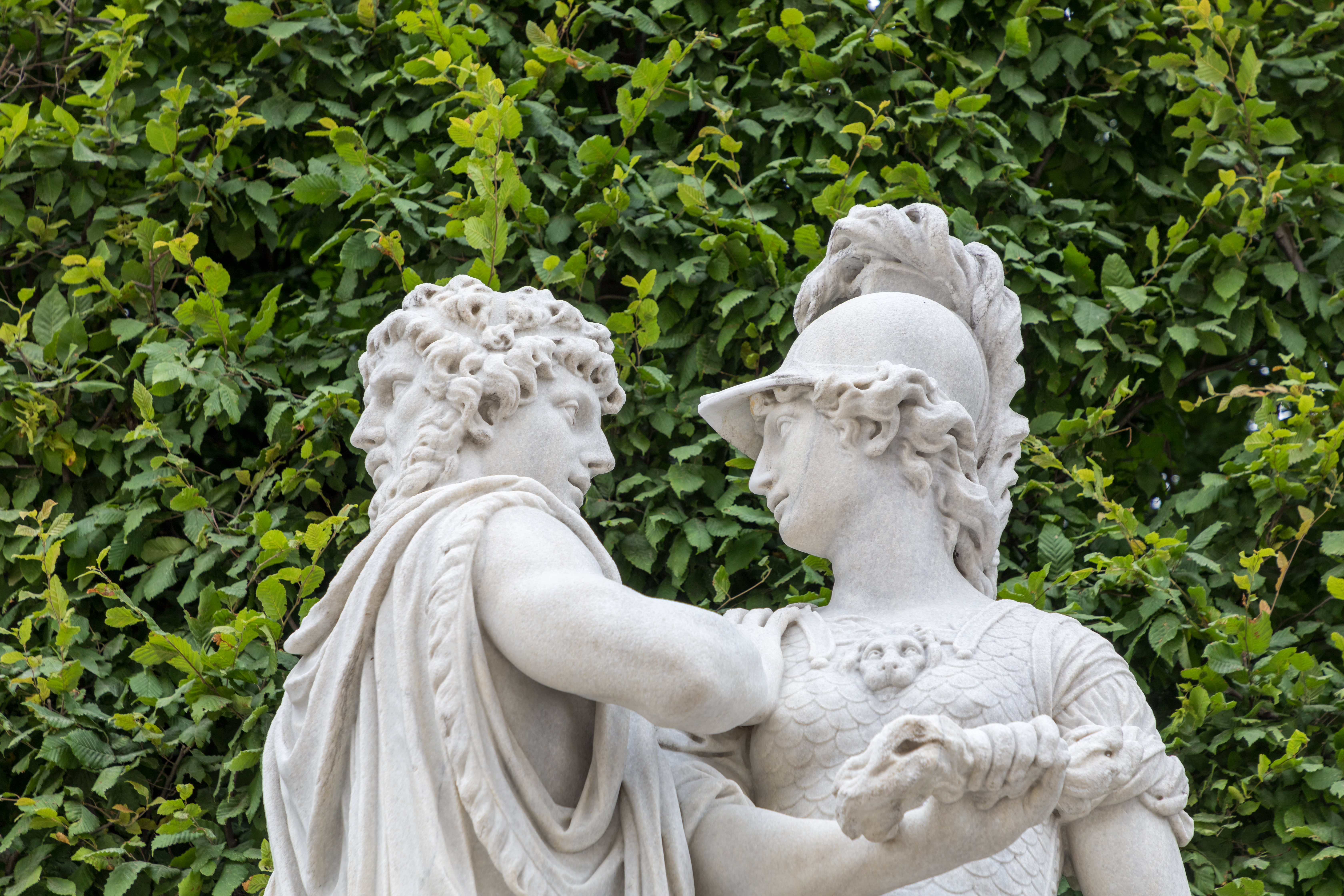 Sculpture in the garden, Schönbrunn Palace, Vienna, Austria Sculpture TitleJanus und BellonaArtistWilhelm BeyerDate1780